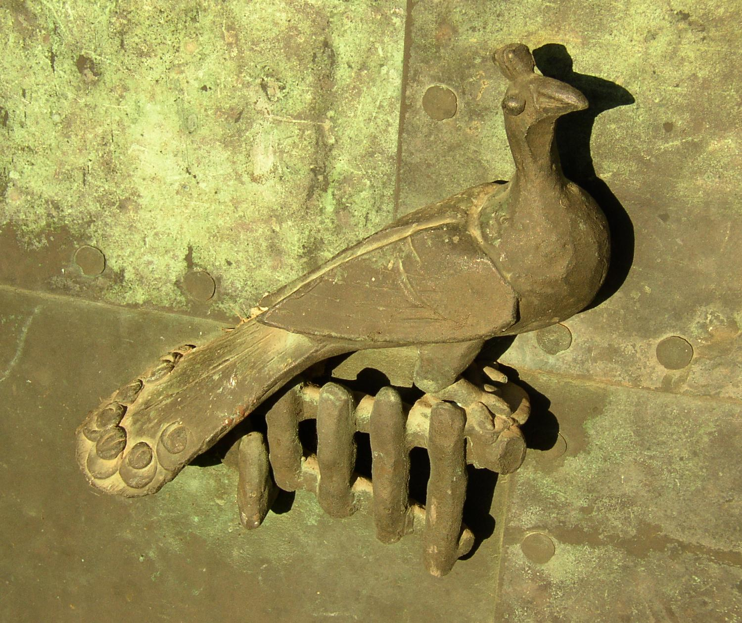 Detail of church door in Hamersleben in Saxony-Anhalt, Germany